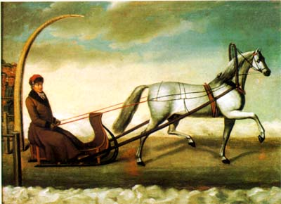 Alexey Orlov-Chesmensky Riding His Stallion Bars I. There is a problem here with both the image and the title. "Bars" is wrong. Although it's a reasonable English cognate for the horse's name in Russian, "Bars" actually means "leopard," a much better name for a swift horse. I suspect this translation / transliteration mistake has gone unchallenged for decades. The image is wrong because the Russian title indicates a mounted rider. I have literary confirmation of both points in Gilyarovsky's Moscow and Muscovites in the chapter "Sukharevka." "Еще два портрета маслом с графа Орлова-Чесменского. На одном портрете граф изображен на своем Барсе верхом, а на другом -- в санях, запряженных Свирепым."